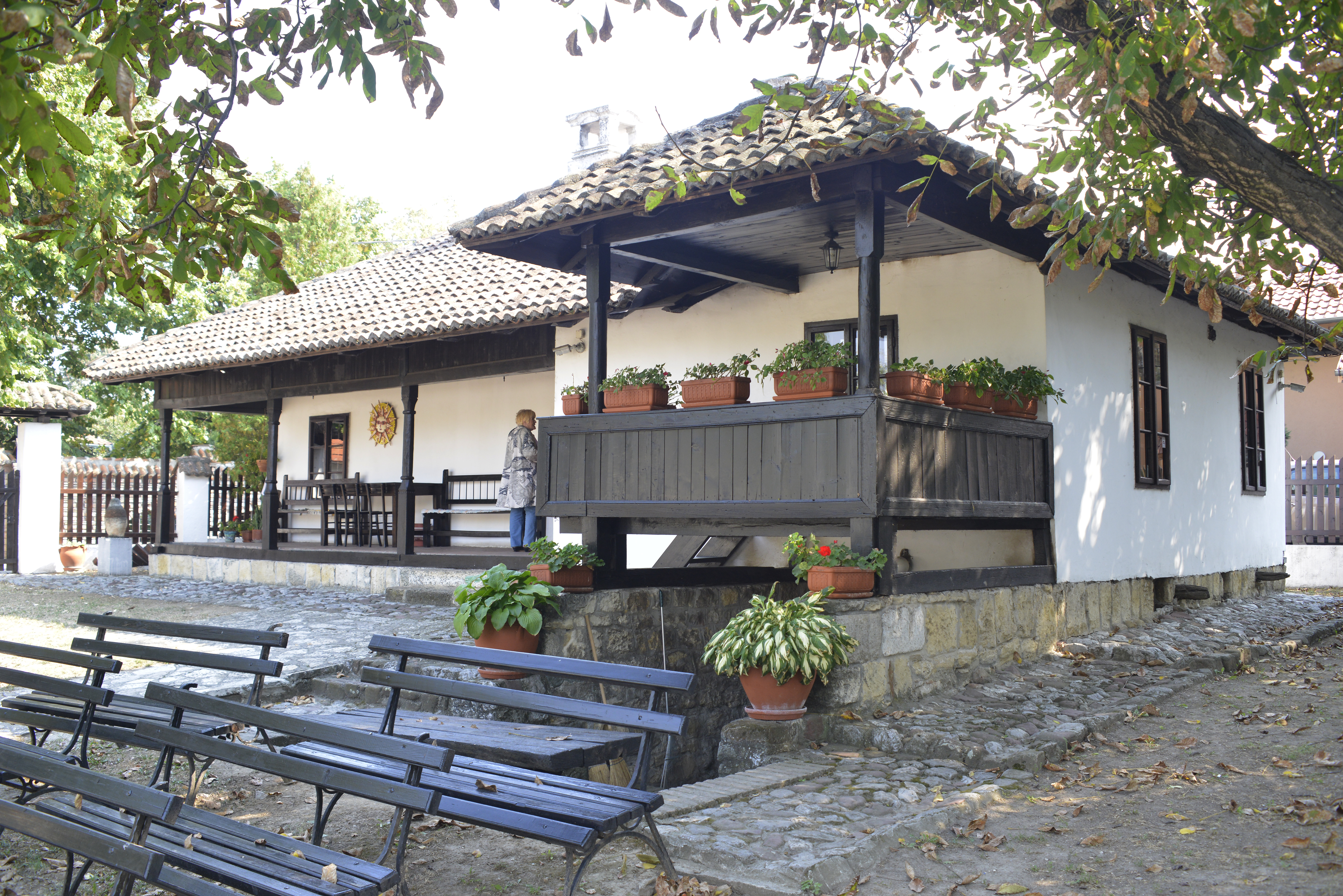 Rancic's house in Grocka, where the Center for Culture Grocka is located